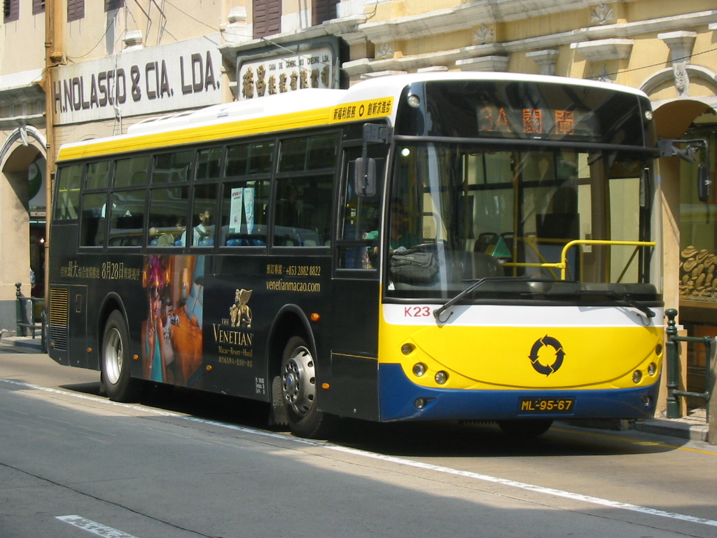 A Transmac bus running on route 3A.